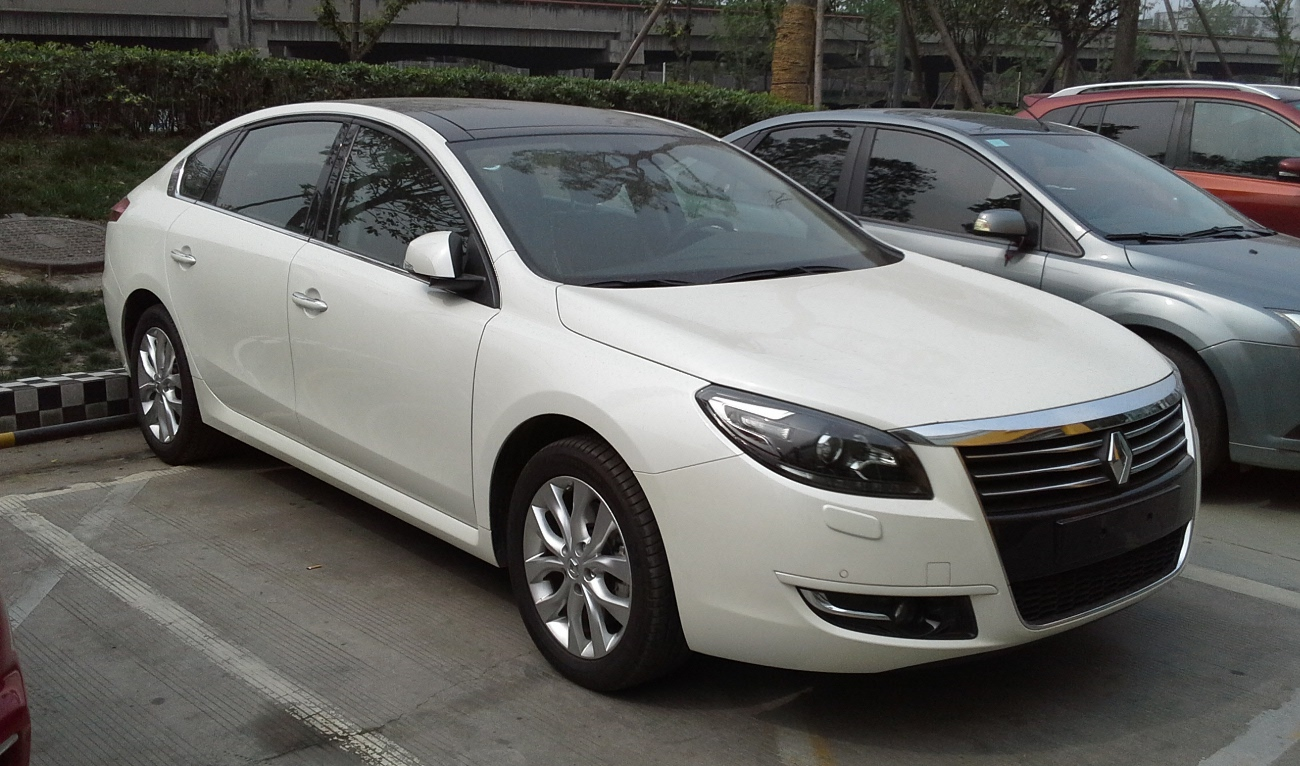 Renault Talisman photographed in Chengdu, Sichuan province, China.